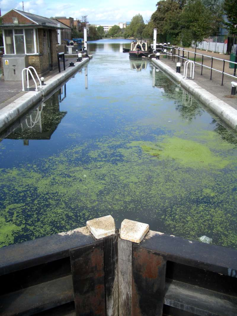 Old Ford Lock on the River Lee. Photograph by Salimfadhley.